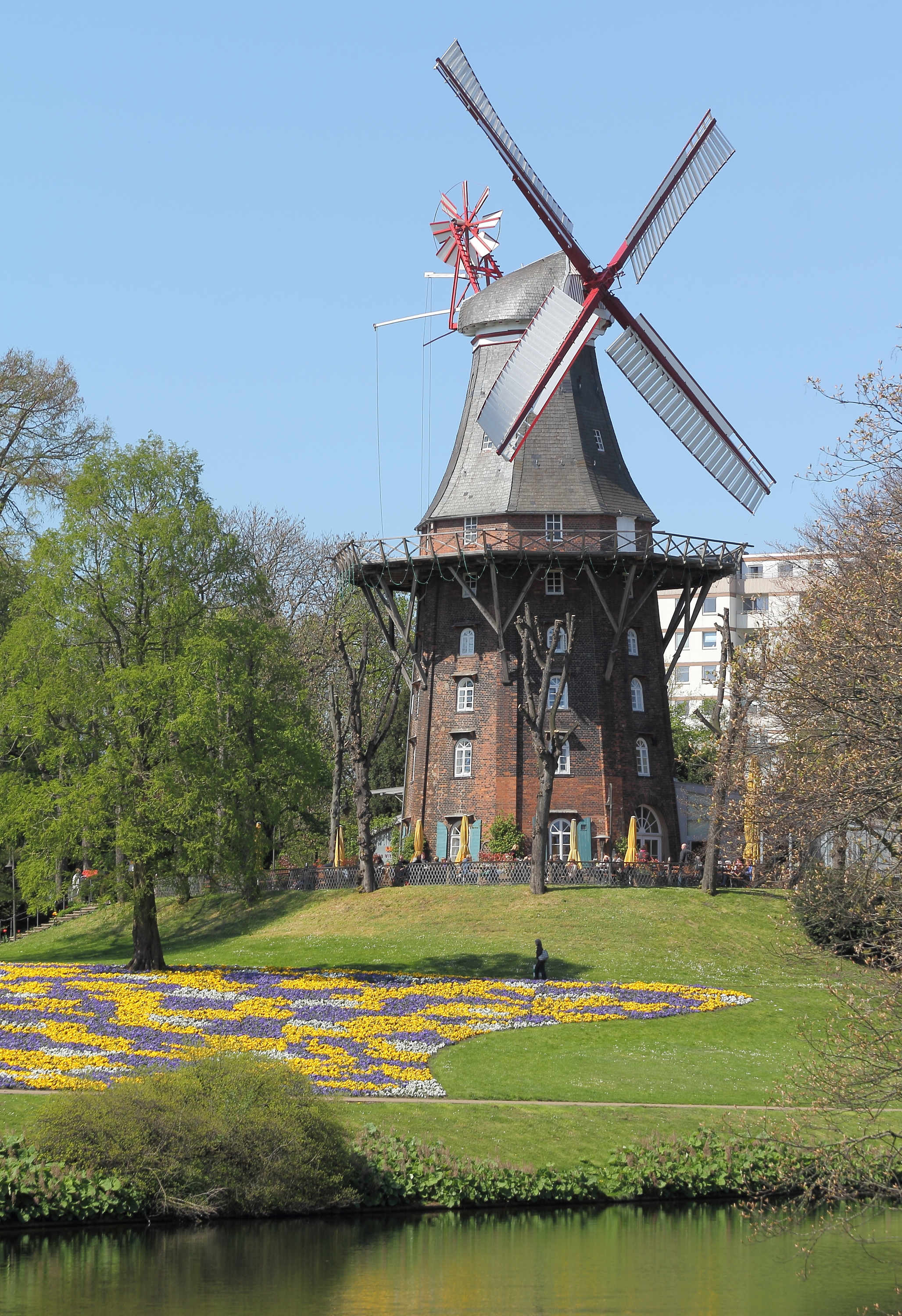 Windmill in the city of Bremen, Germany